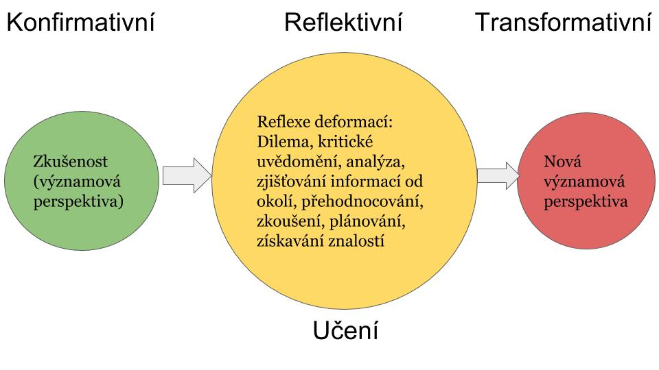 The scheme of transformational learning theory